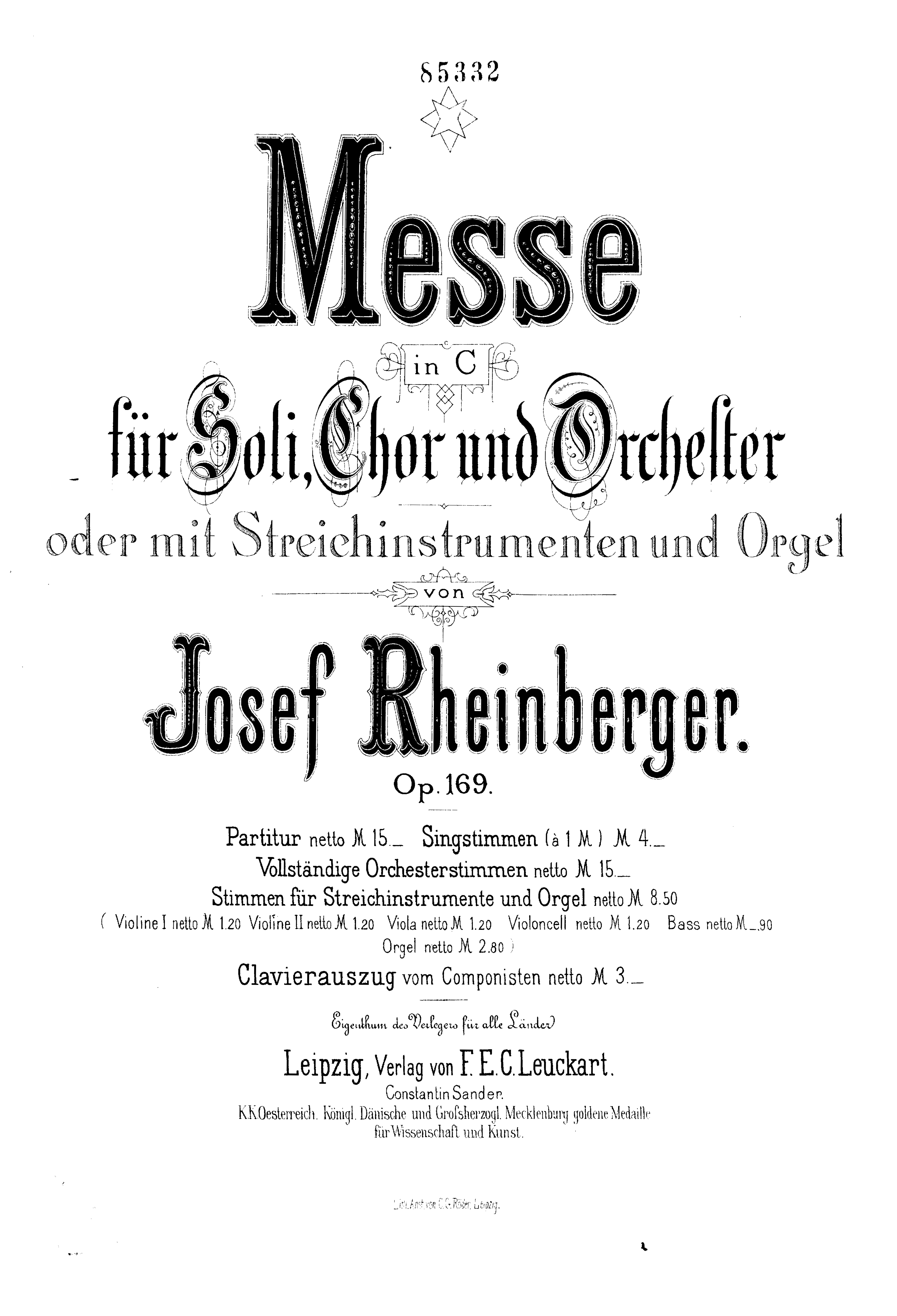 Cover of the first edition of the Mass in C major op. 169 by Josef Rheinberger